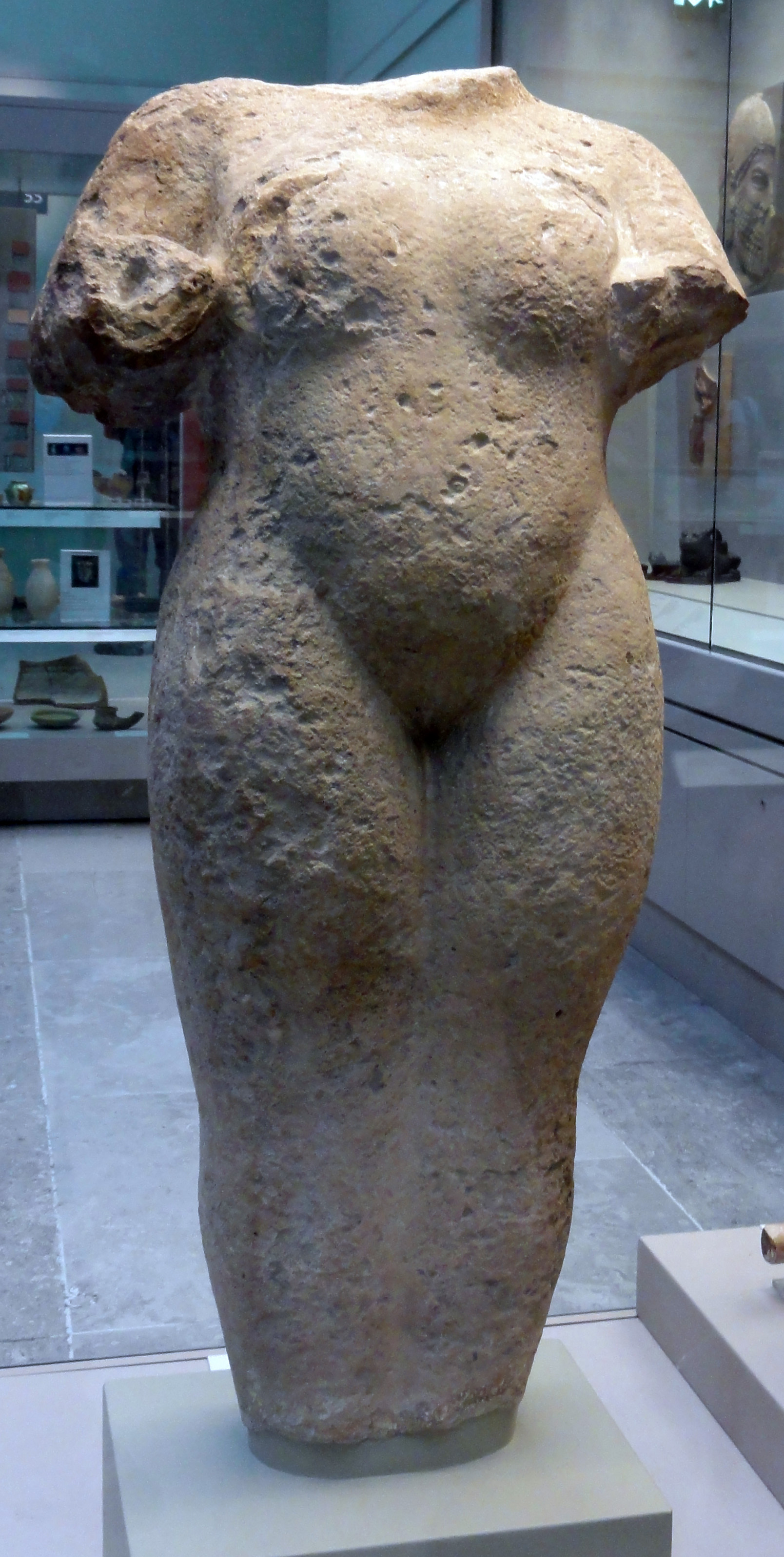 Originally set up in the temple of Ishtar. This is the only known Assyrian statue of a naked woman (inscribed as "for titillation"), and may represent Ishtar in her role as the goddess of love. 11th century B.C. BM/Big number 124963. Reg No 1856,0909.60. See Assyrian statue (BM 124963)